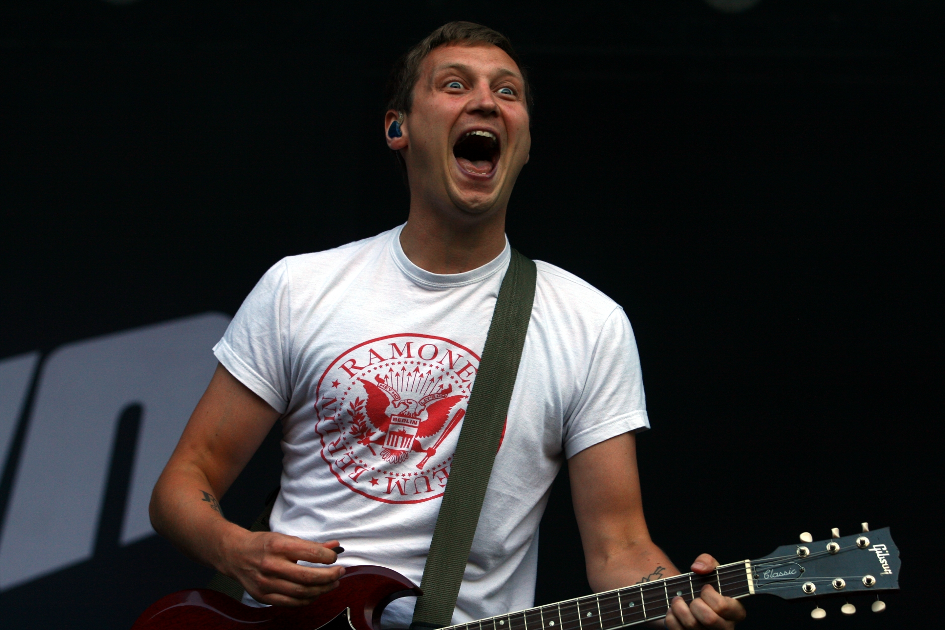 Billy Lunn, singer of The Subways, Taubertal Festival 2014. Festivalsommer This photo was created with the support of donations to Wikimedia Deutschland in the context of the CPB project "Festival Summer".